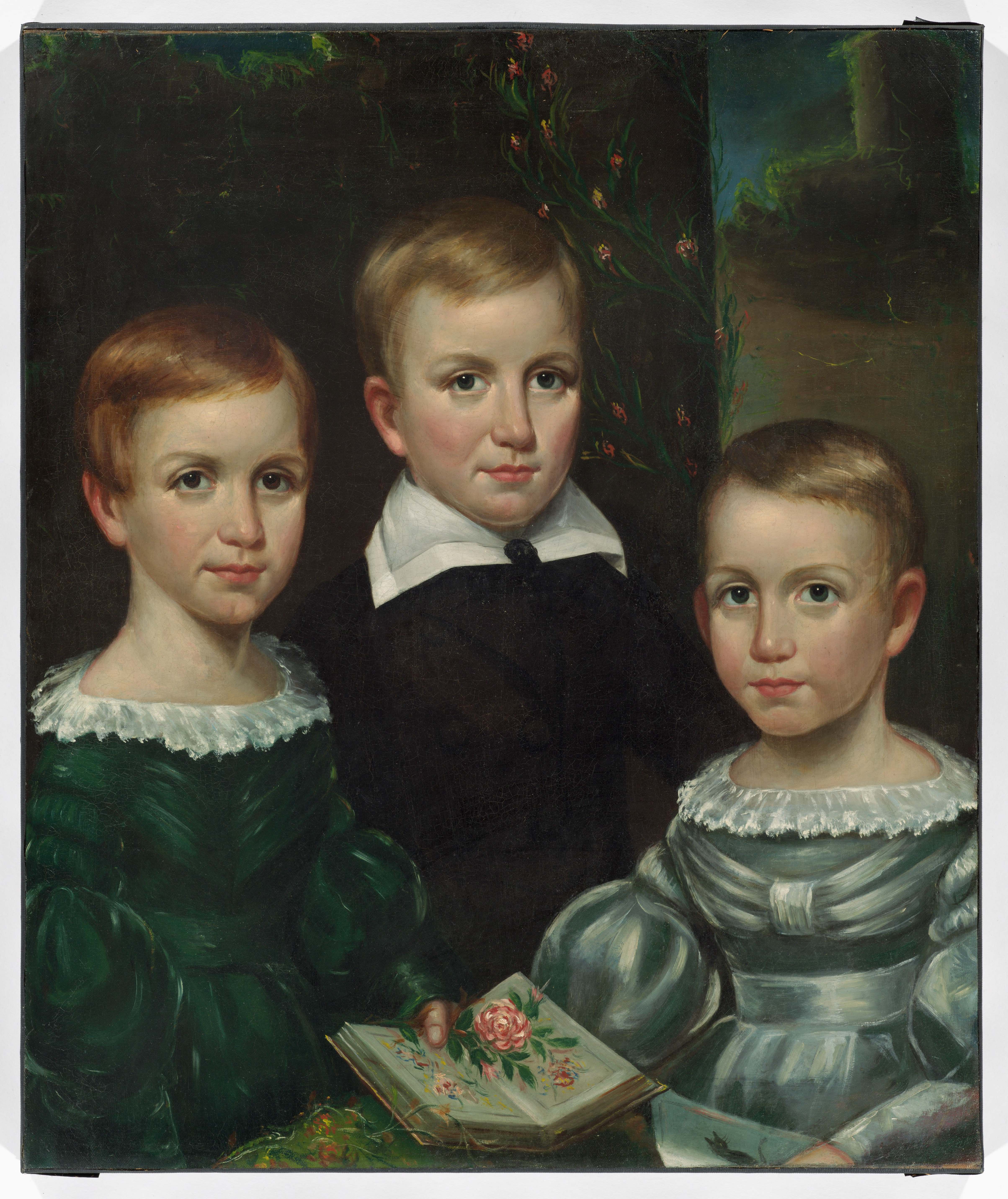 Emily Elizabeth, Austin, and Lavoinia Dickinson by Otis Allen Bullard, oil on canvas, ca. 1840, Houghton Library, Harvard University